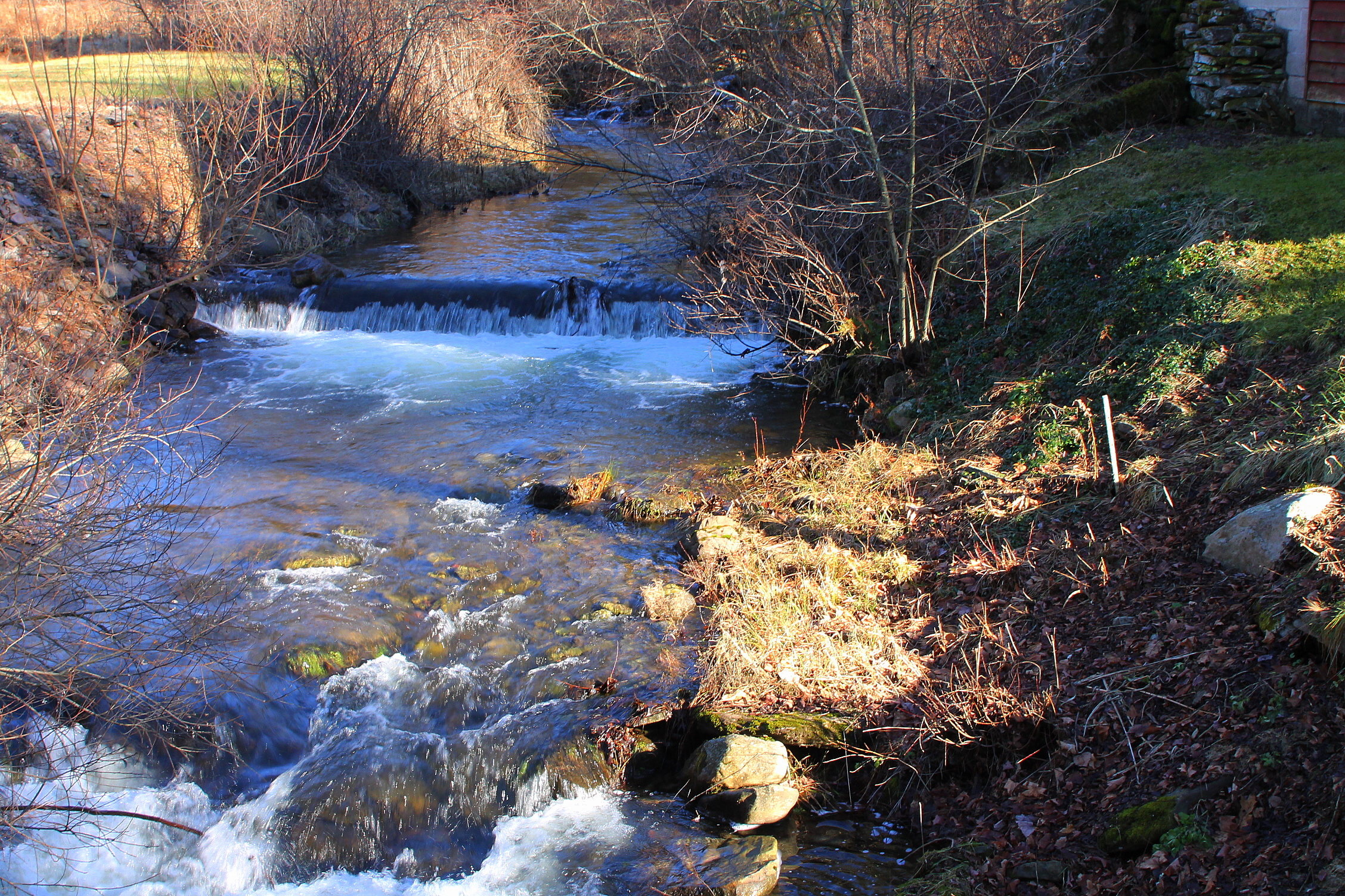 Coles Creek looking upstream from T800 in Sugarloaf Township, Columbia County, Pennsylvania